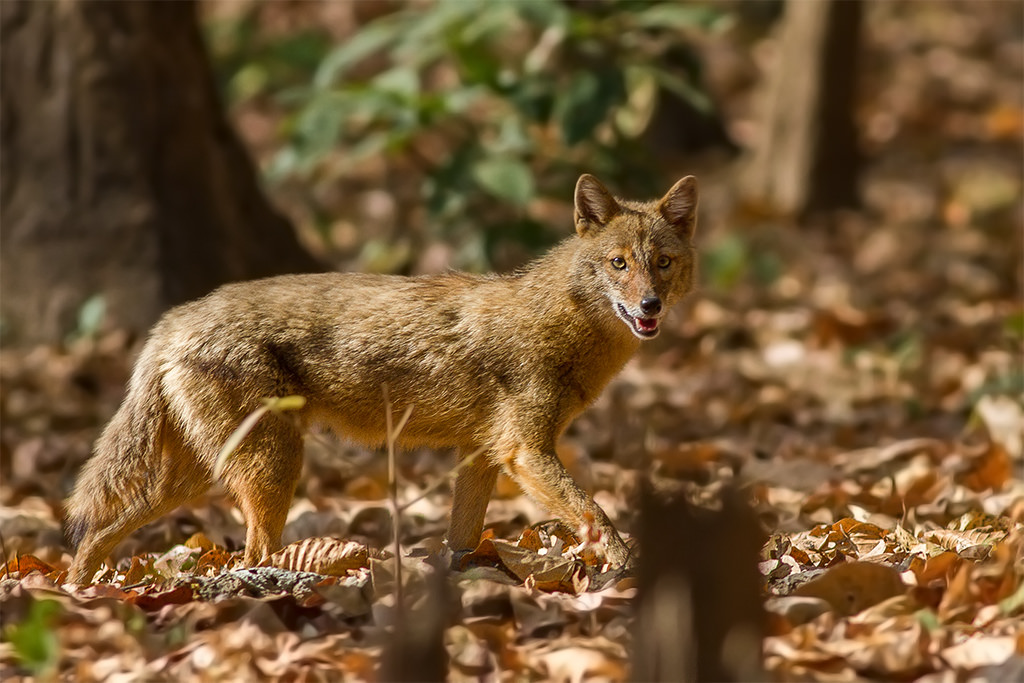 The golden jackal (Canis aureus), also known as the common jackal, Asiatic jackal or reed wolf is a canid. Wildlife, Mammals of Himalayas